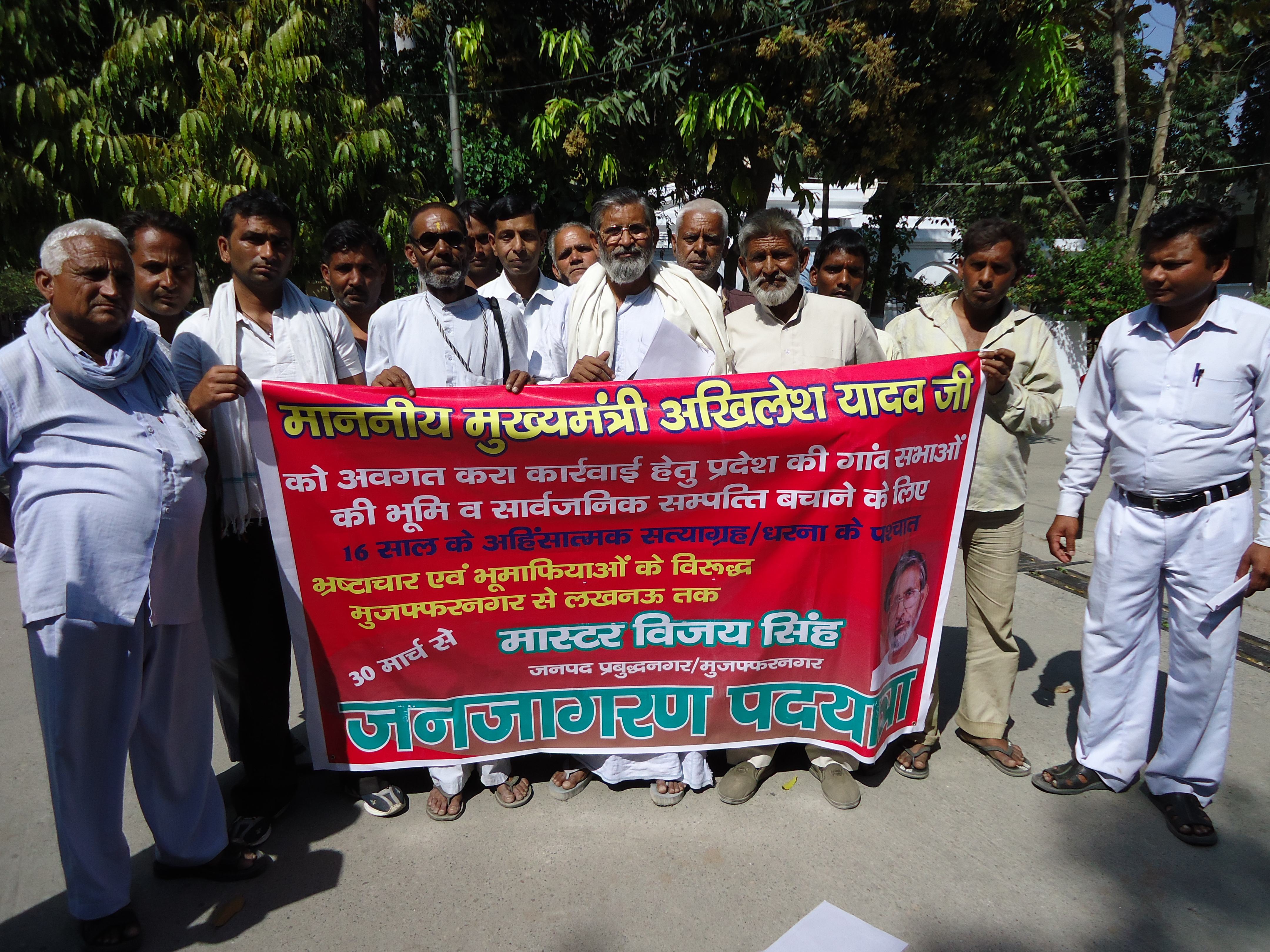 MARCH TO LUKNOW